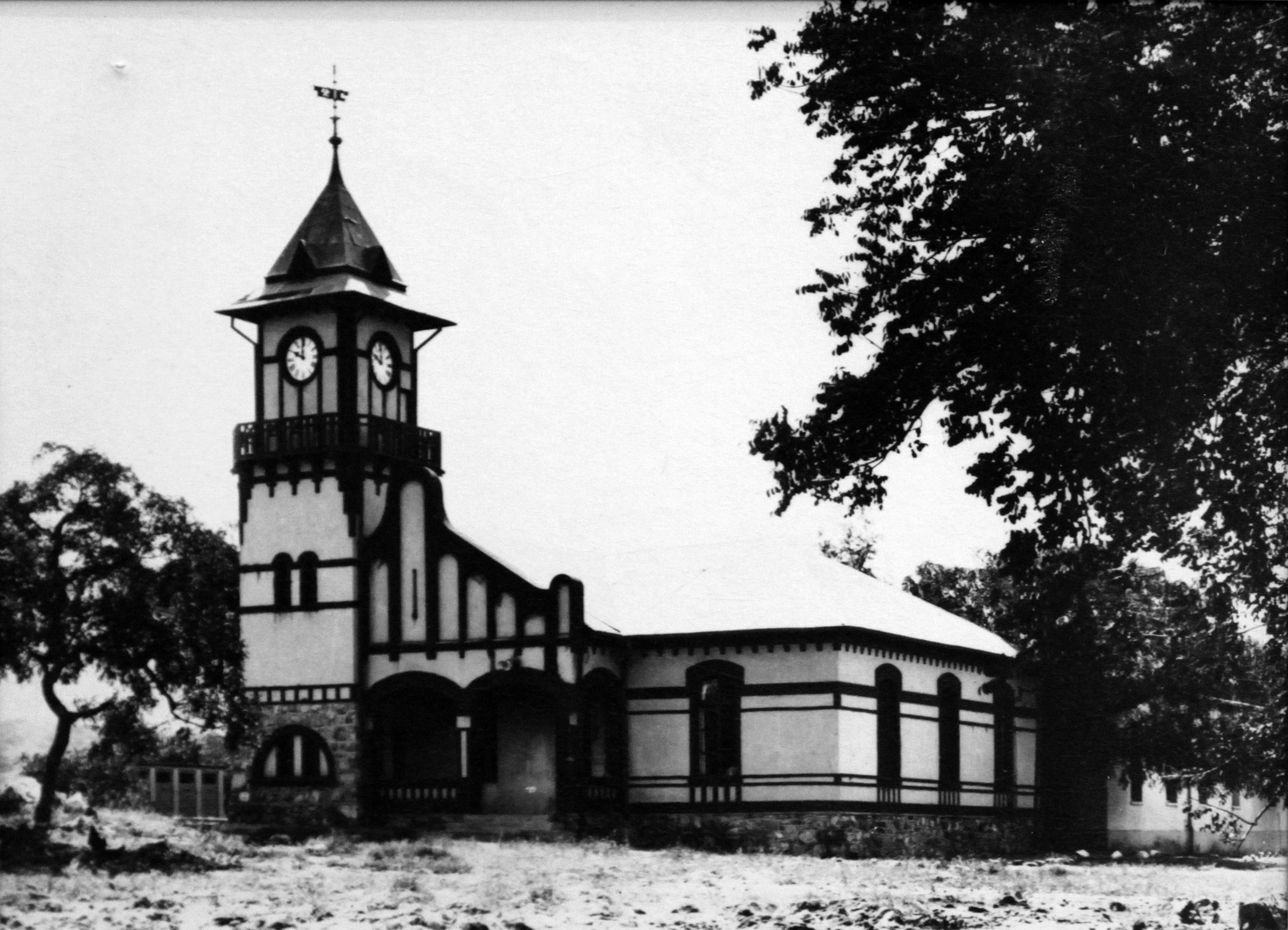 OMEG Main Office, Tsumeb, Namibia (built 1907)